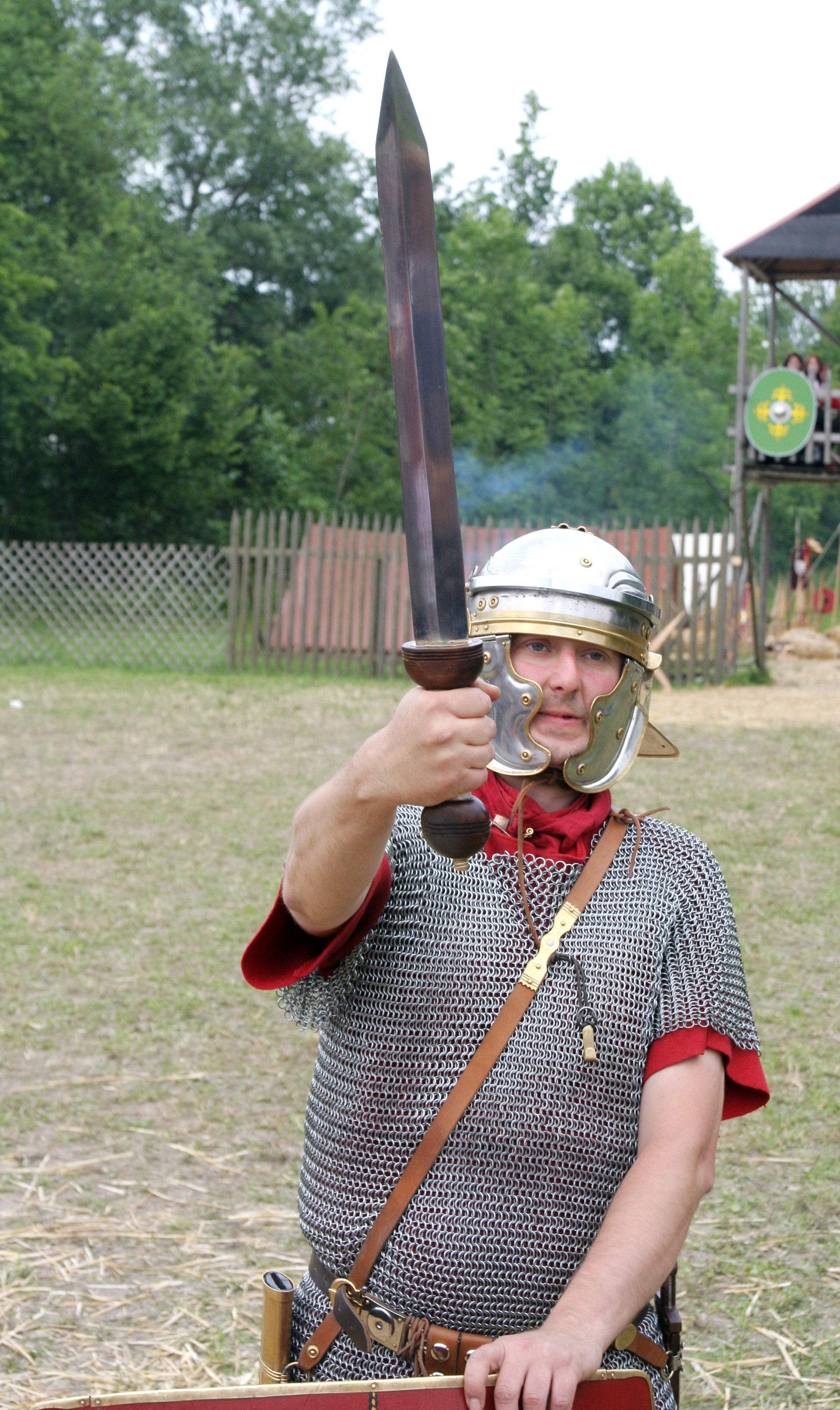 Roman gladius 70 a.C. The background should not show a real Roman fortress. Photographed by myself during a show of Legio XV from Pram, Austria